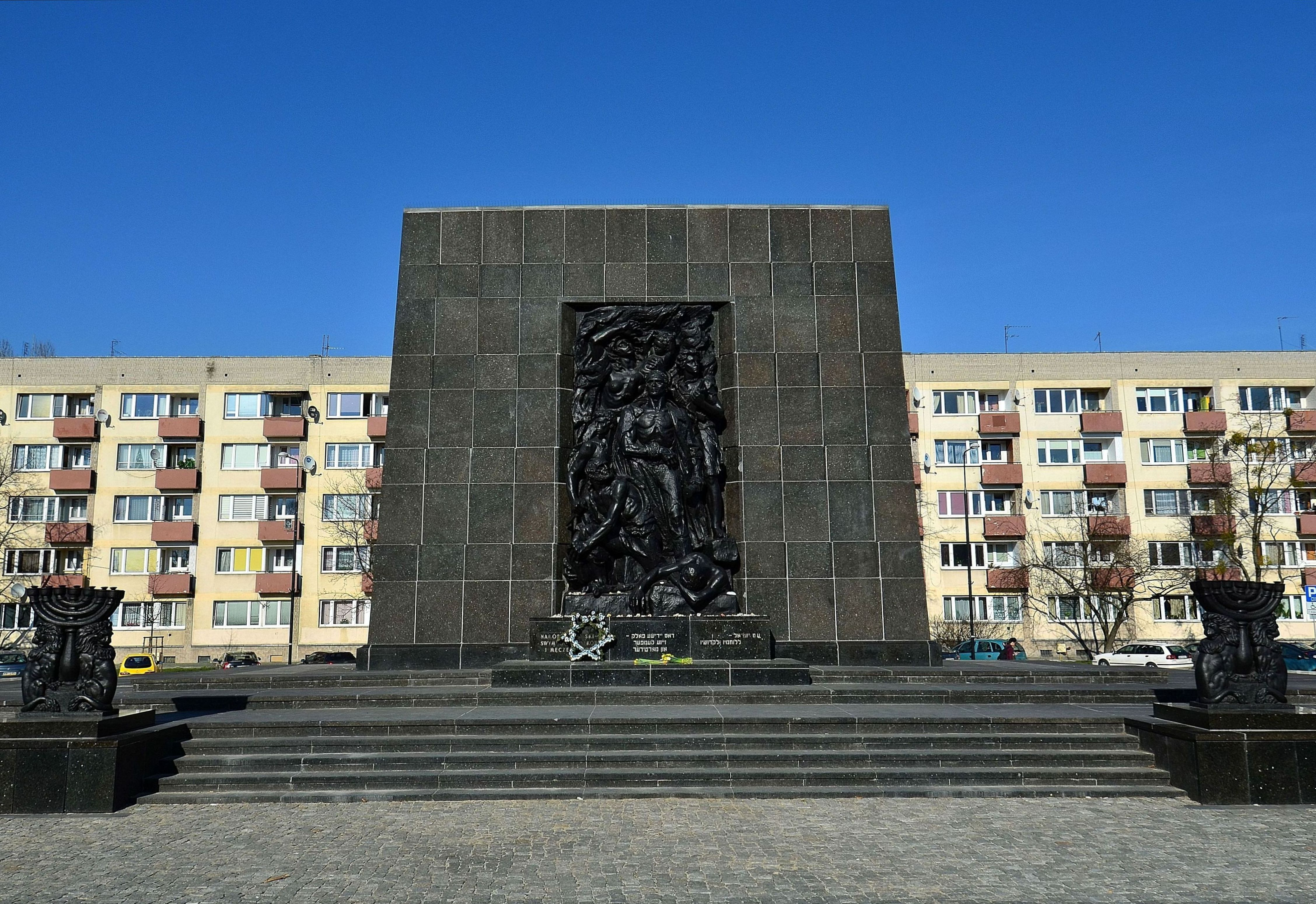 Monument to the the Warsaw Ghetto Heroes in Warsaw after 2012 renovation